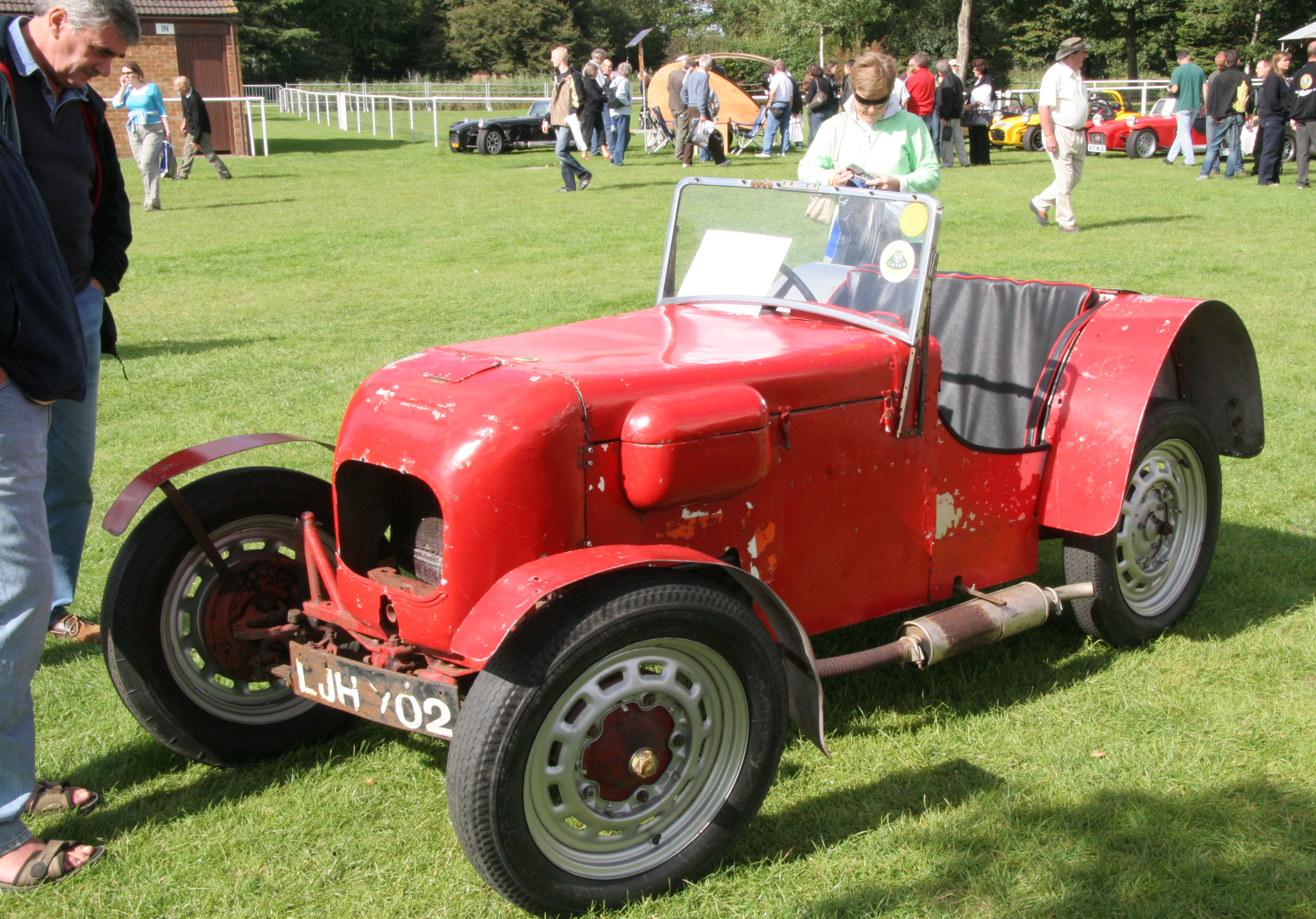 Lotus Mk 2 built by Colin Chapman in 1949 form an Austin 7 chassis, Ford 1172cc engine and Austin 4 speed gearbox and axle.